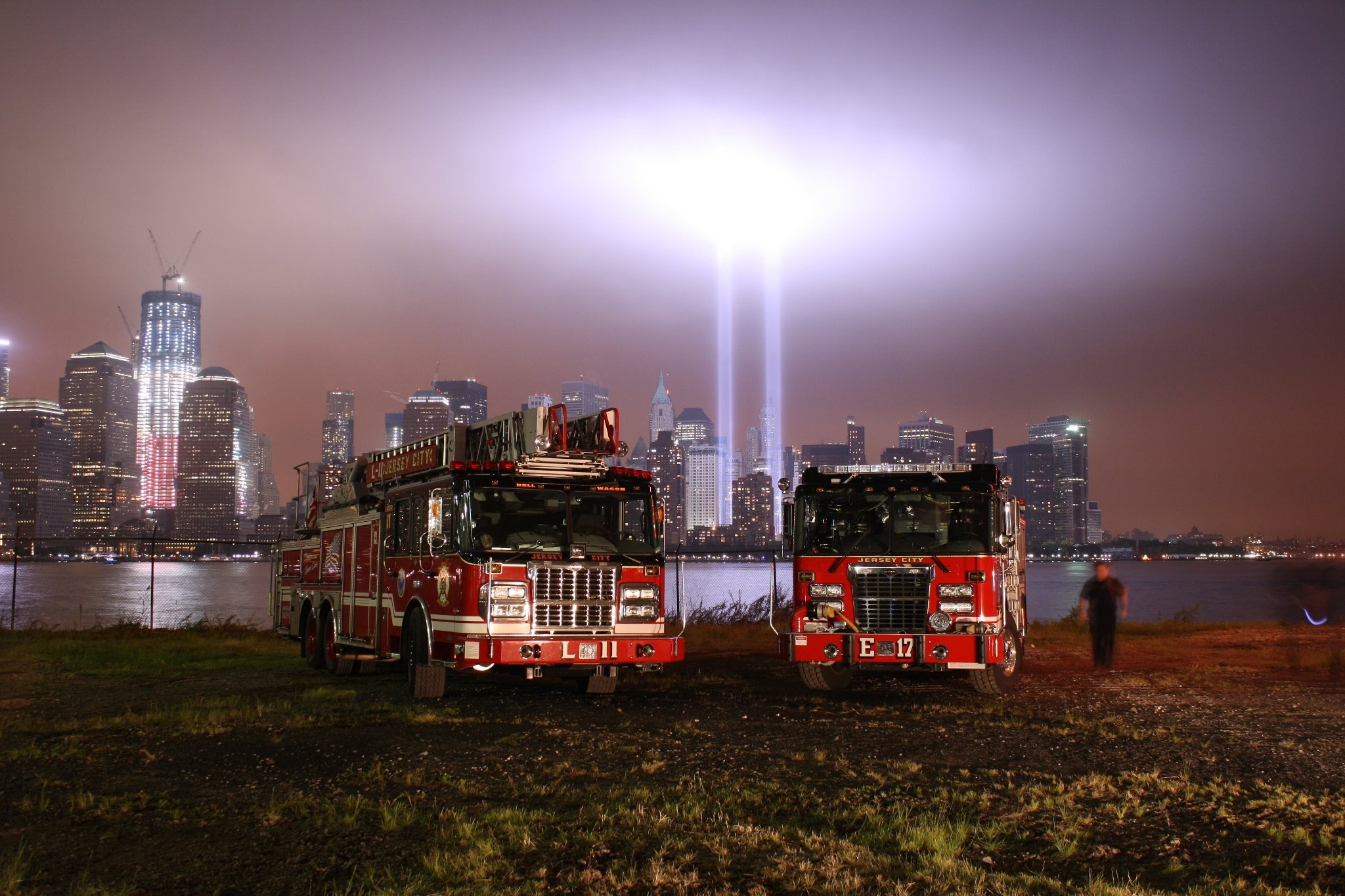 Ladder 11 fdjc